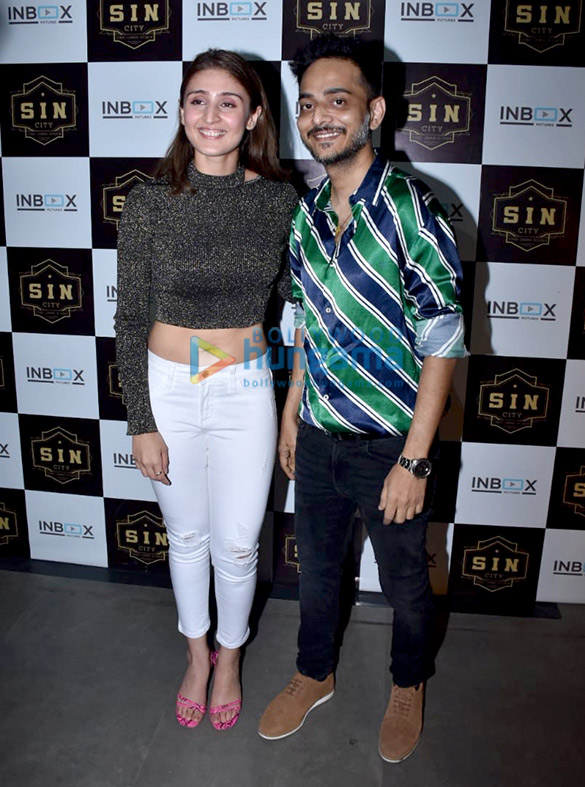 Tanishk Bagchi graces Dhvani Bhanushali's success bash of Vaaste